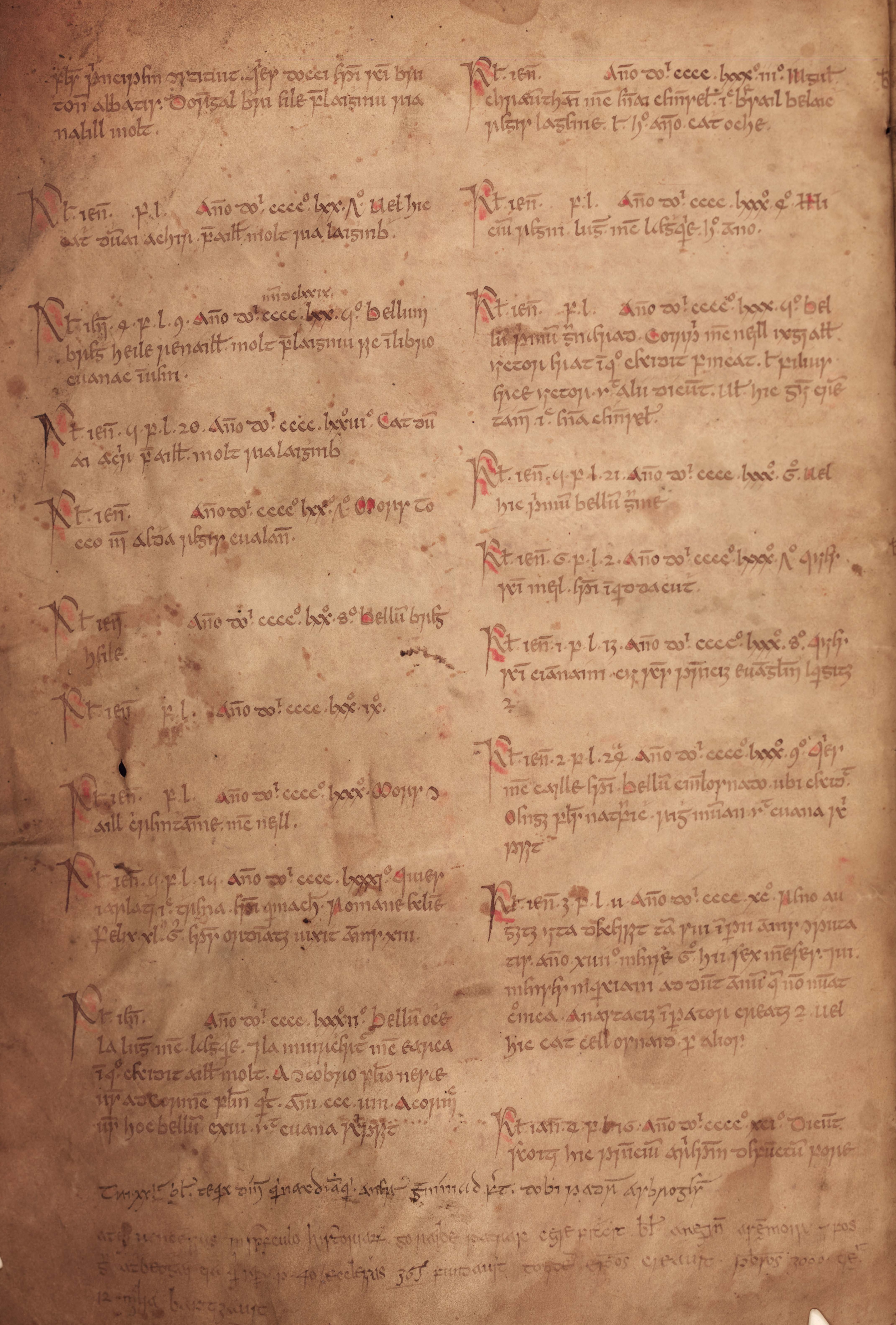 Bodleian Library MS. Rawl. B. 489 - folio 2v (Annals of Ulster)